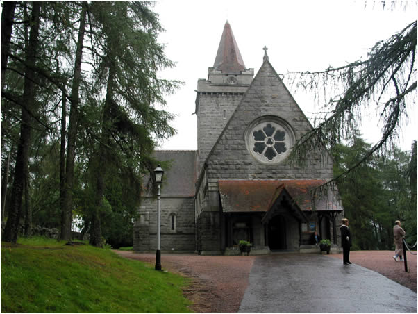 Photograph of Crathie Church (Crathie Kirk), Scotland. August 4, 2004 on a rainy day in Scotland. Photograph by D.M. Short. Canon Powershot G2 camera.